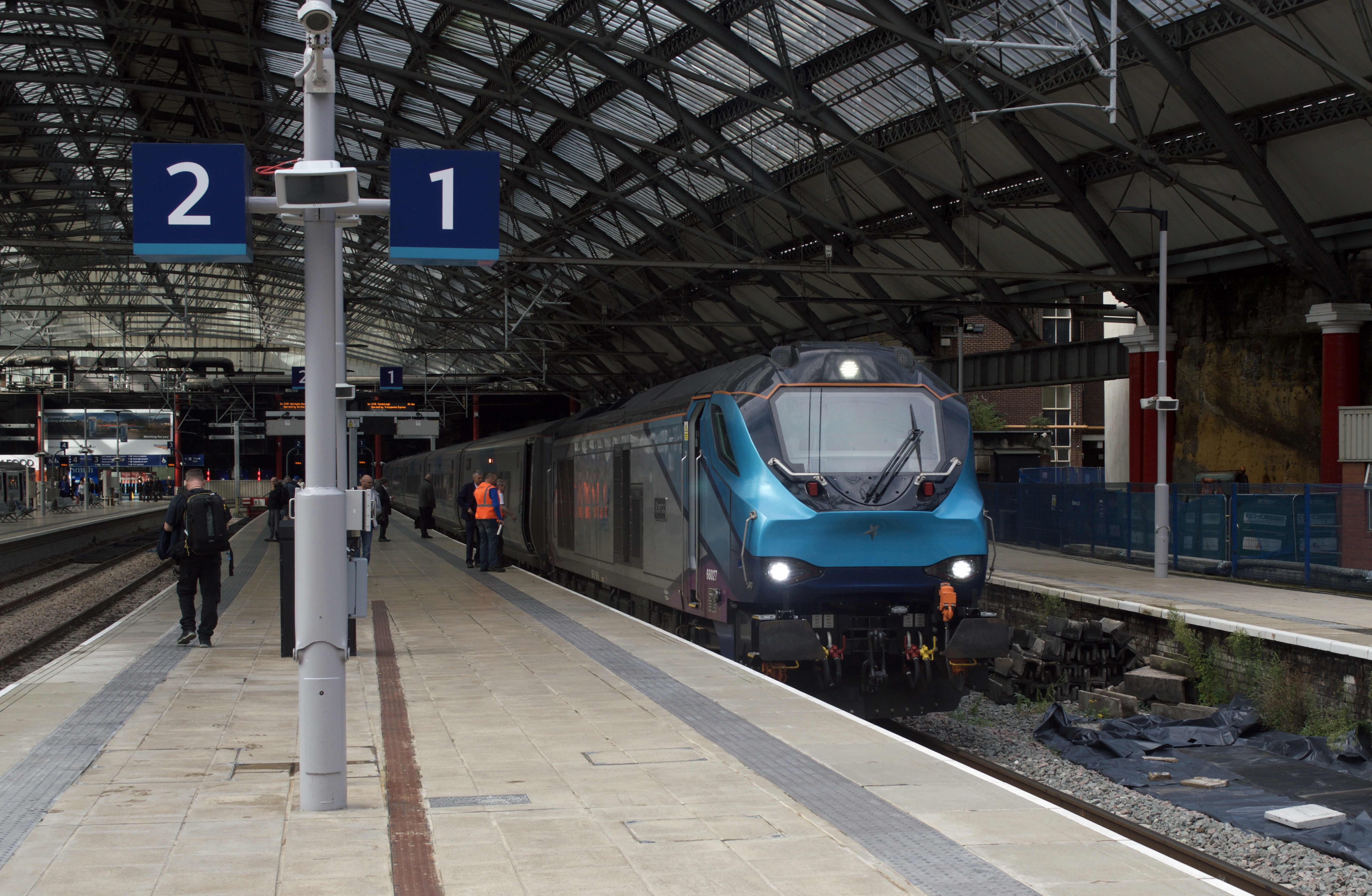 Liverpool Lime Street railway station. A day out to sample Transpennine Expresses Nova 3 sets which are being phased in on their Liverpool to Scarborough route. Both coaches and some locos are Spanish - Construcciones y Auxiliar de Ferrocarriles (CAF) built Mark 5A coaches with a driving trailer and four intermediate coaches with the 1st class at the loco end. 66 have been built to form 13 sets Haulage is class 68 with the first batch built by Vossloh España and then Stadler. The locos are owned b Direct Rail Services (DRS). On 26 September 2019 two sets were out in traffic. One seen here is hauled by 68027 "Splendid" forming 1E37, 12:56 Liverpool Lime Street to Scarborough.